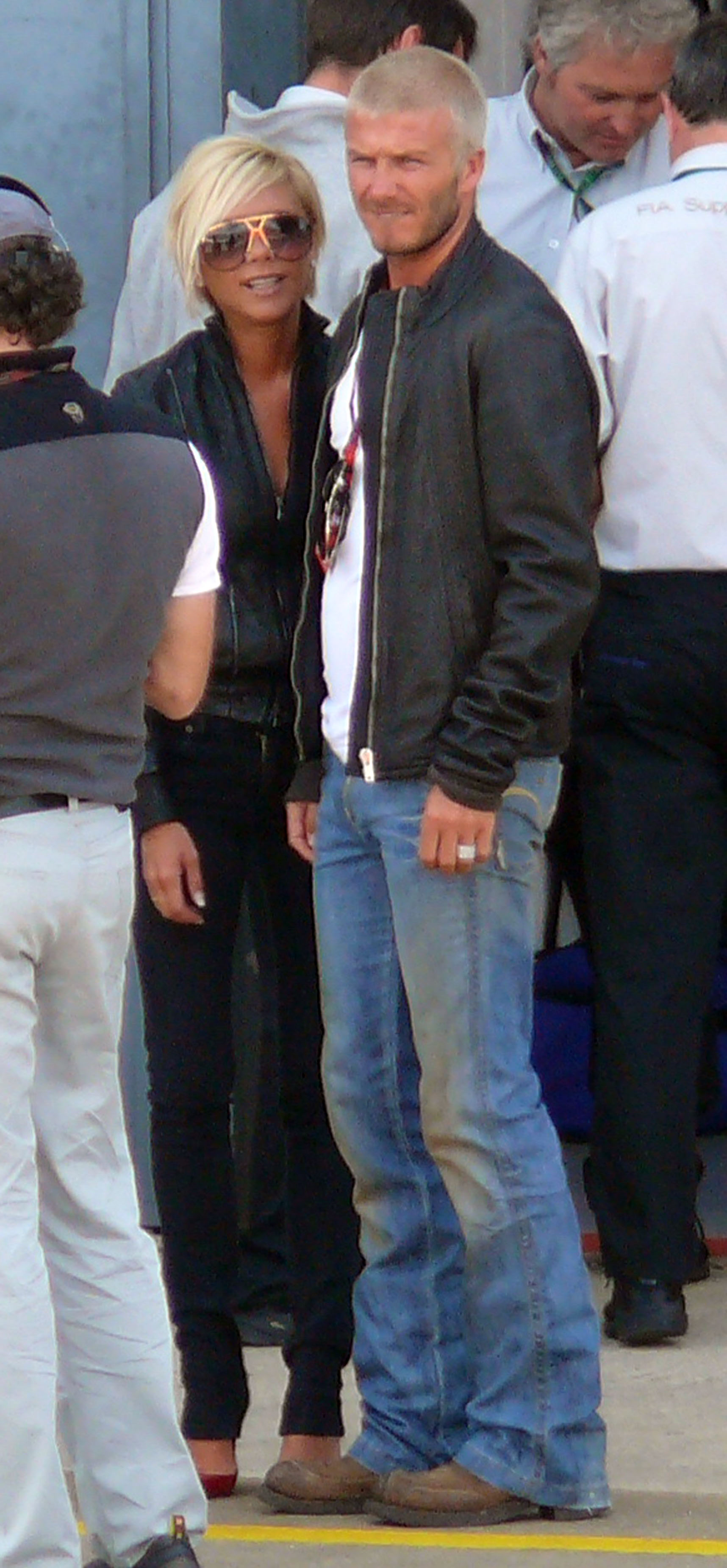 David and Victoria Beckham in Silverston Circuit in the Great Britain G.P. 2007.